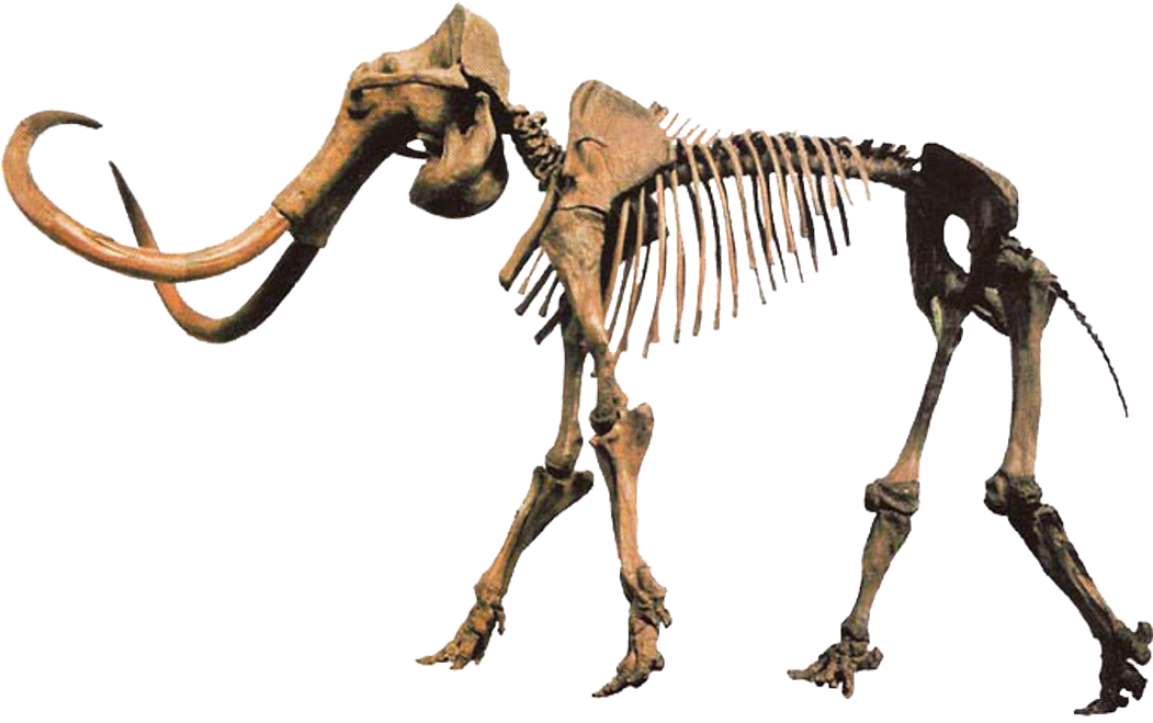 Mammuthus primigenius "Hebior Mammoth specimen" bearing tool/butcher marks, cast skeleton produced and distributed by Triebold Paleontology Incorporated